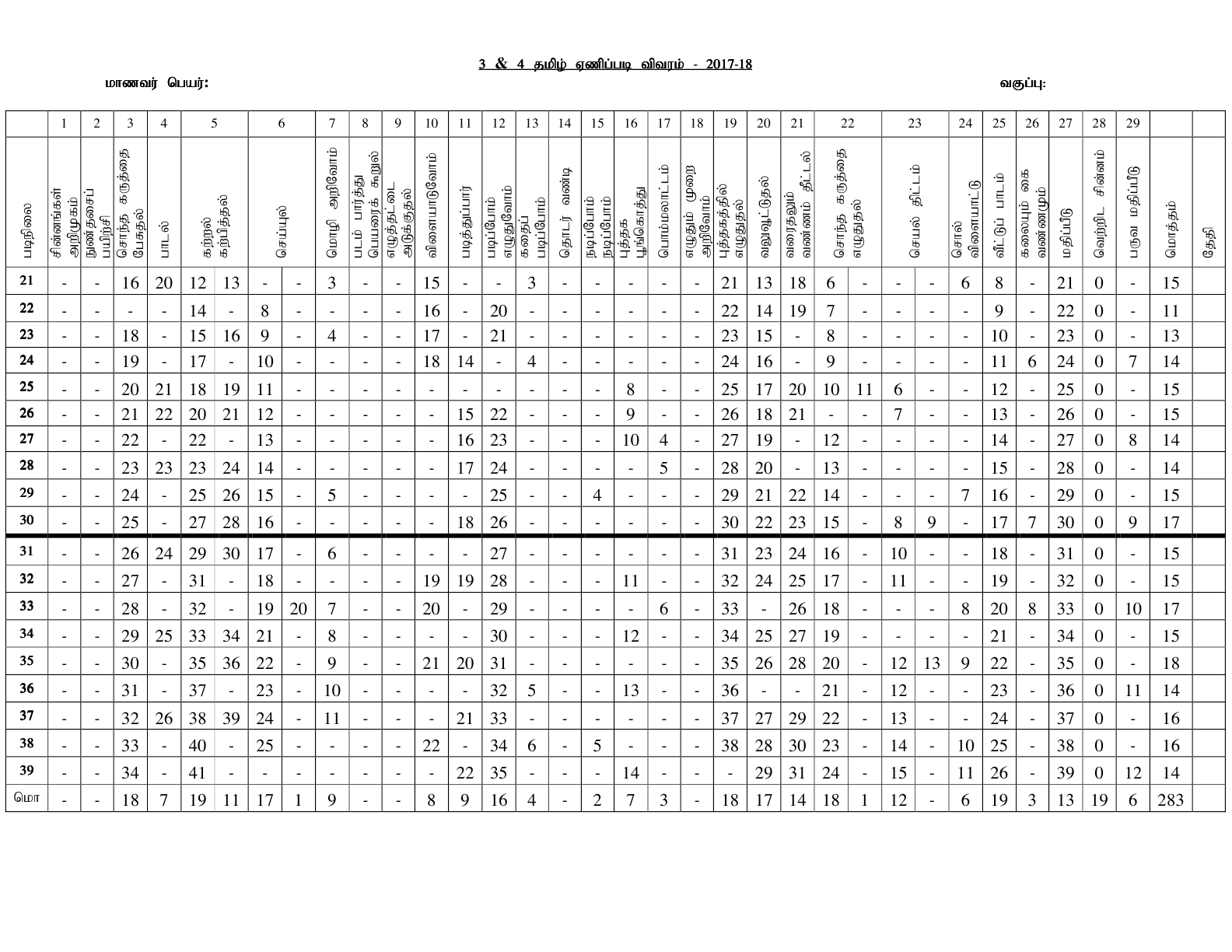 SABL (tamil nadu primary teaching method) ladder